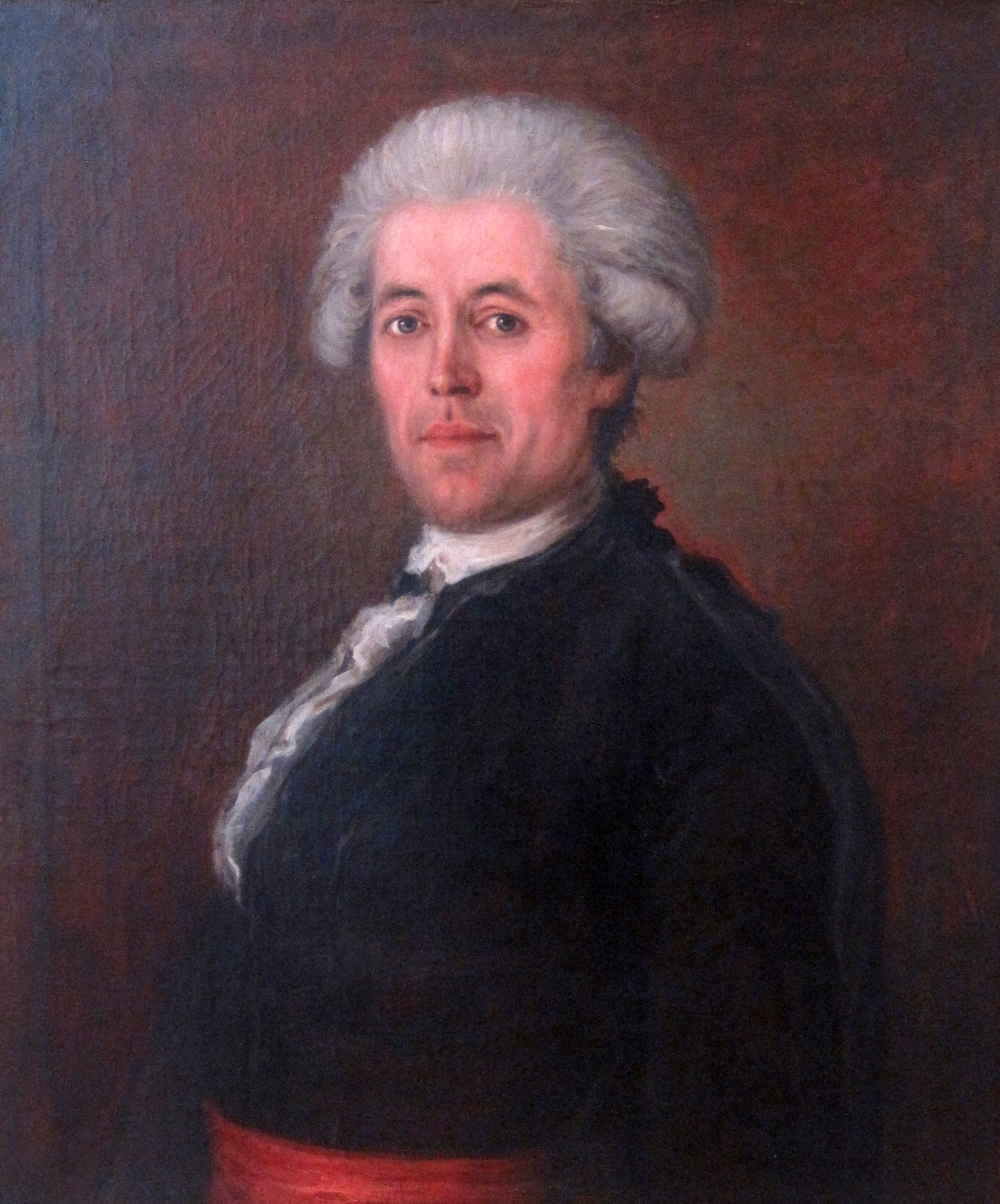 Matthias Norberg (1747-1826), Swedish linguist; professor of Greek and oriental languages at Lund University. Norberg is shown wearing the so called "Nationella dräkten" ("national dress") introduced by king Gustav III of Sweden.